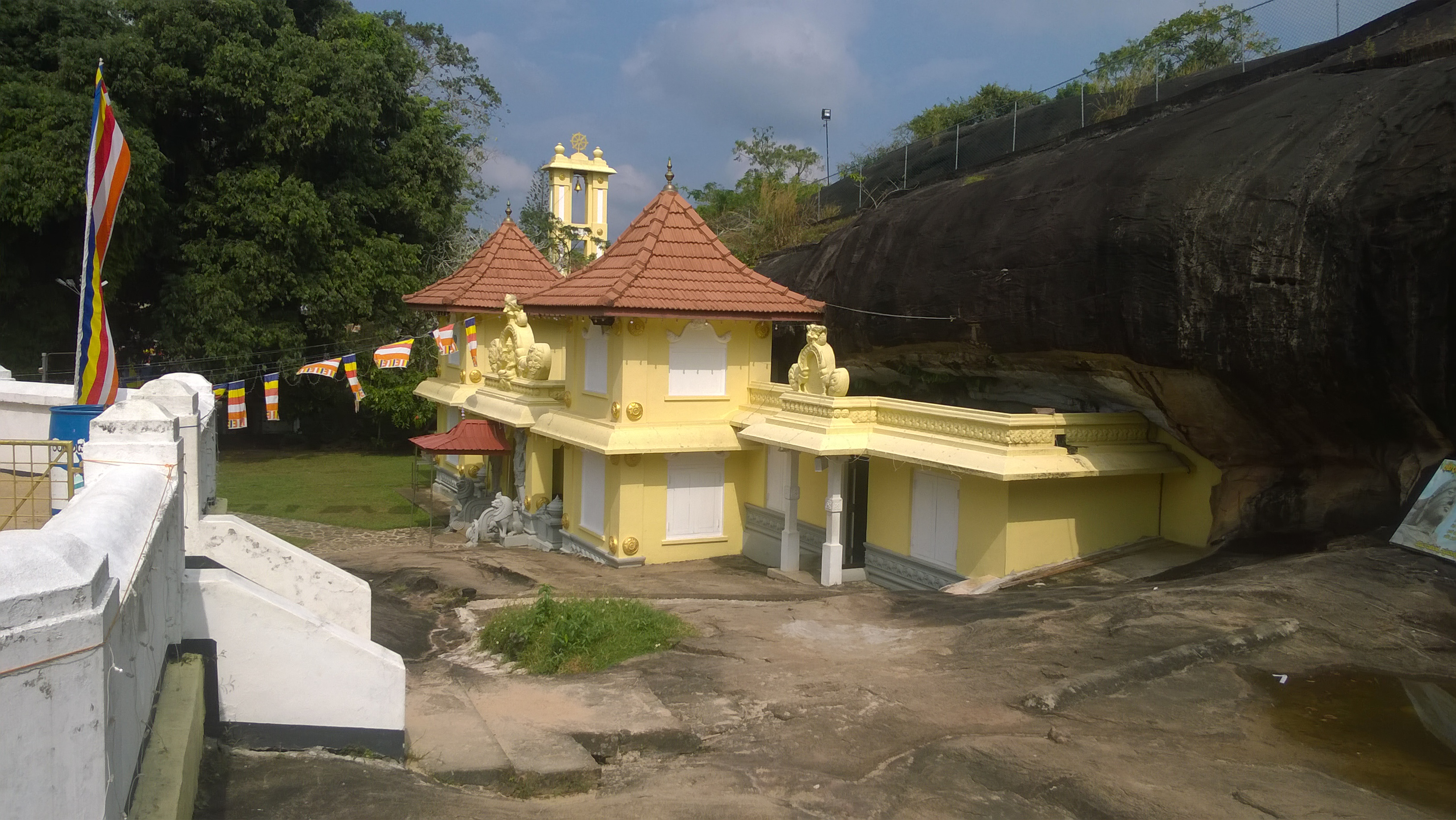 A view from Aluthepola vihara, Divulapitiya, Sri Lanka